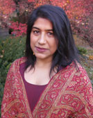 Face Image of Aradhna Krishna